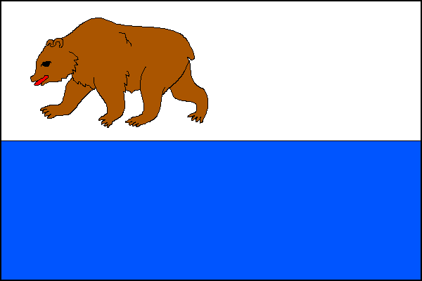 Flag of Beroun town, Beroun District, Czech Republic.